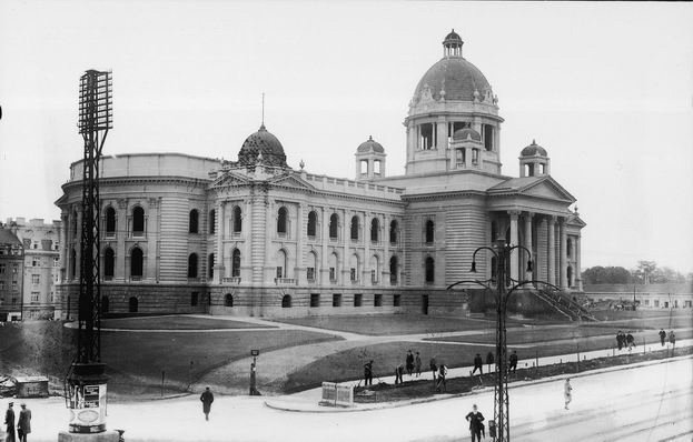 Serbian National Assembly